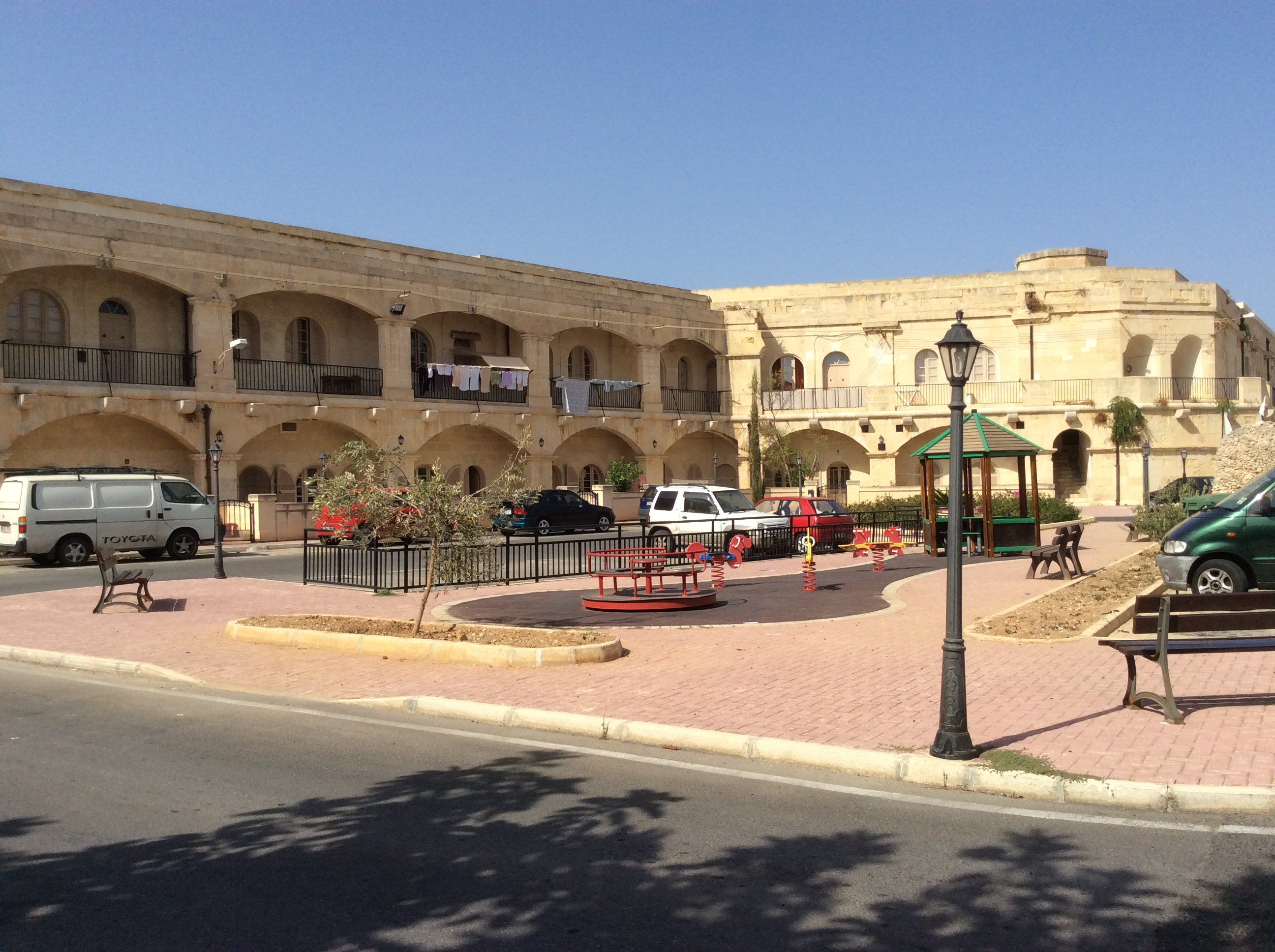 Birgu This media is about Maltese cultural property with inventory number 01507.